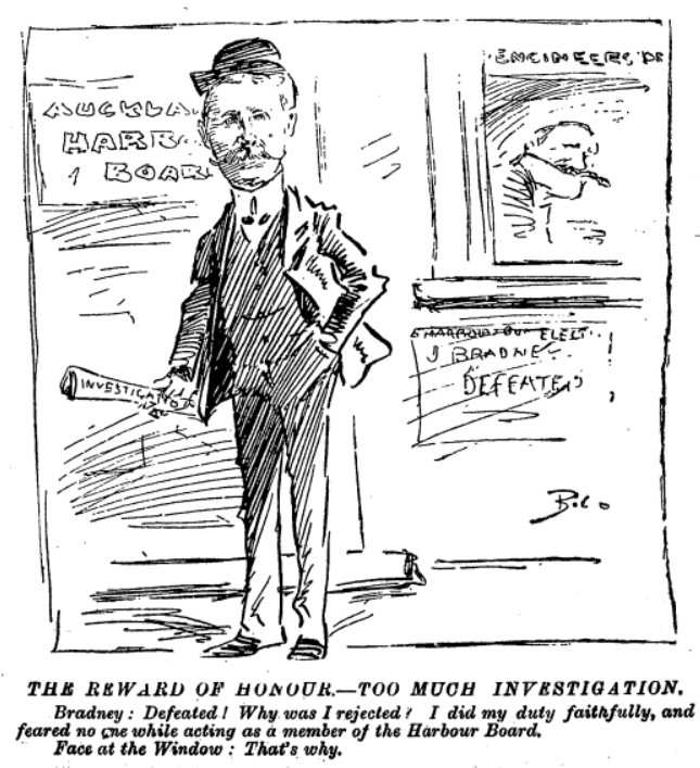 Cartoon in the Observer newspaper in New Zealand 20 Feb 1909, page 5.